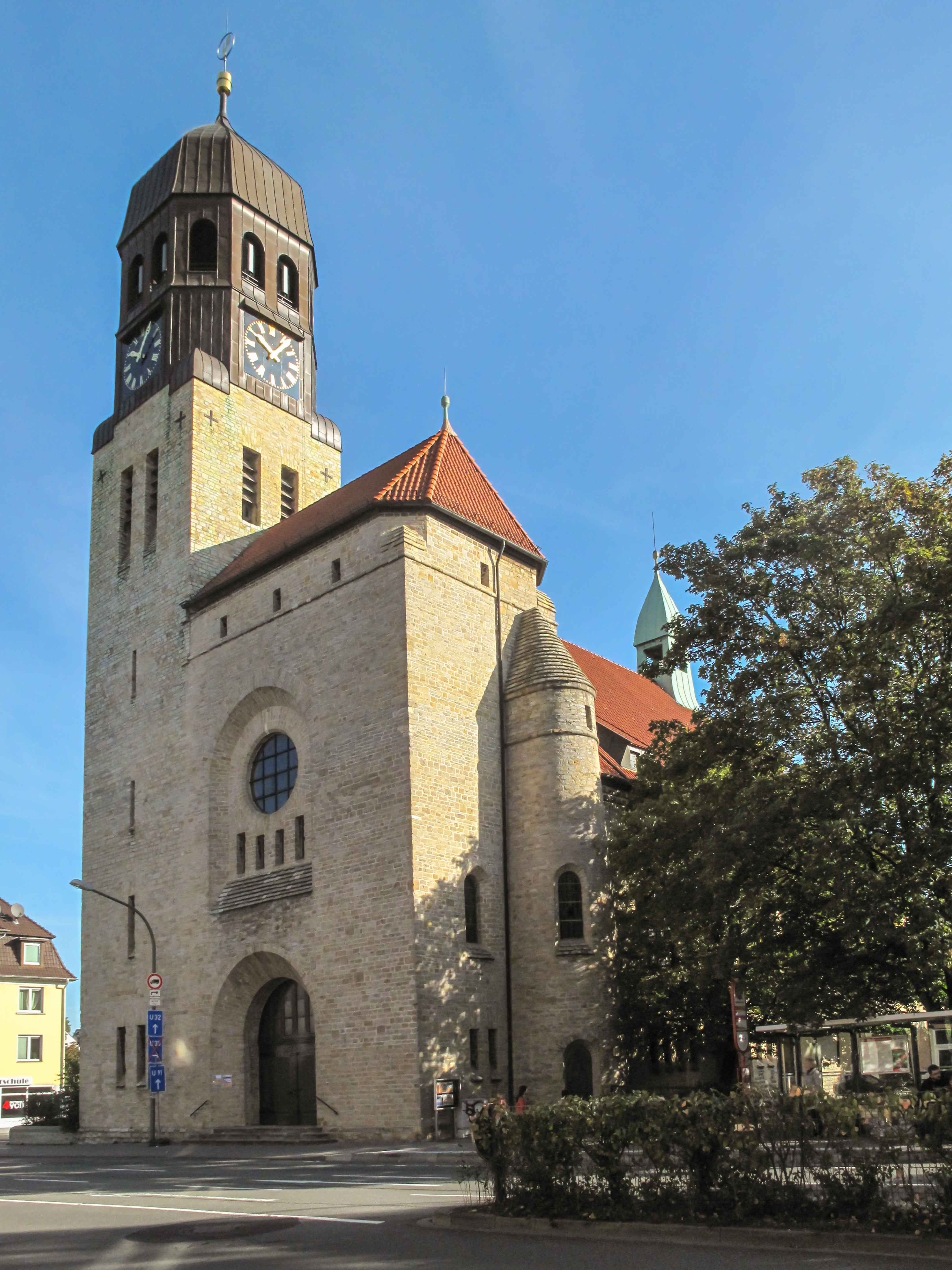 Osnabrück, church: die Lutherkirche